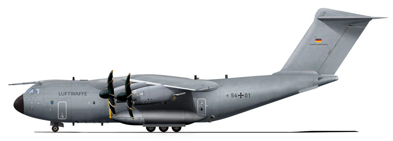 Airbus A400M with markings of Germany